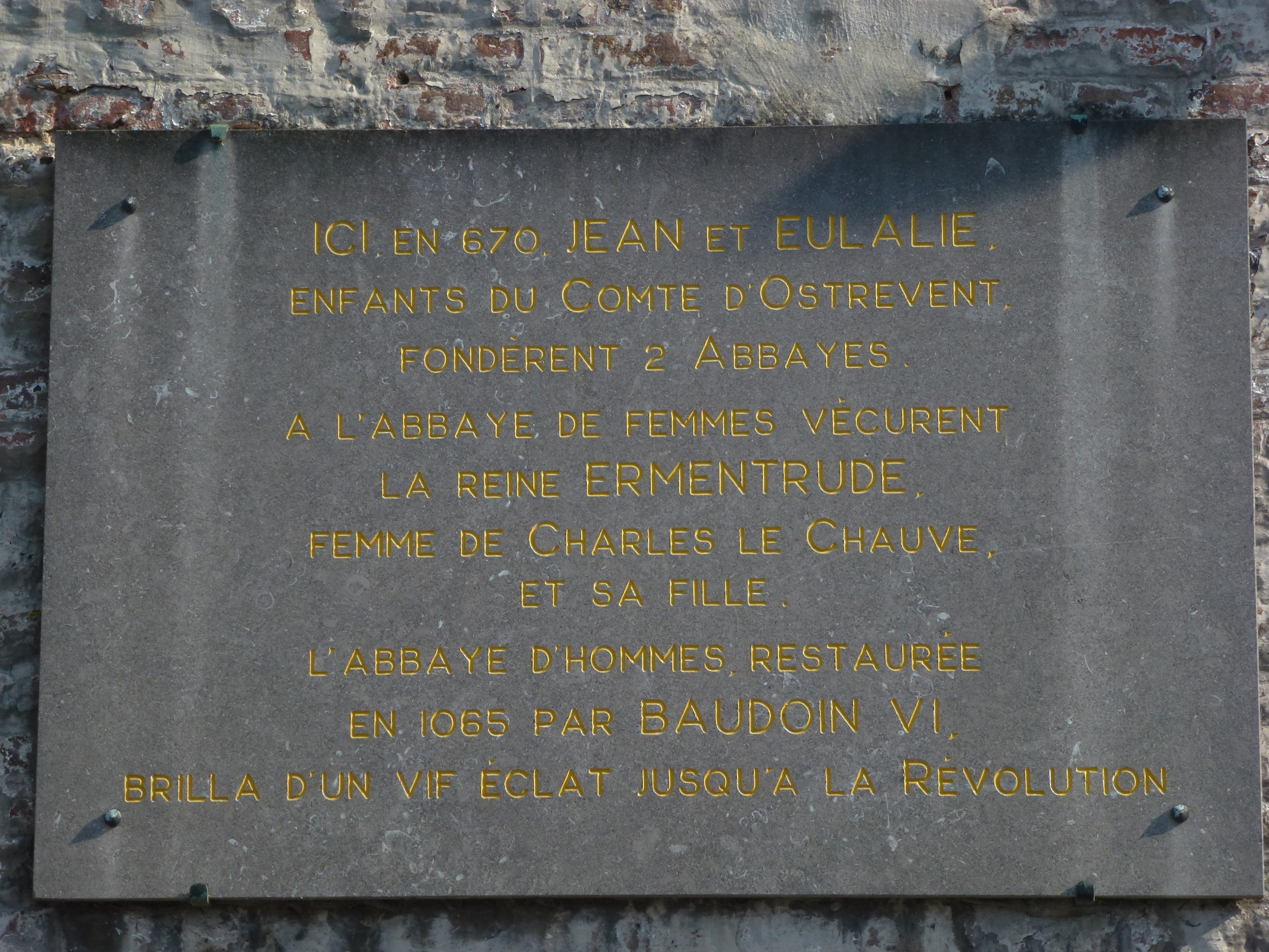 Hasnon (Nord, Fr) plaquette abbaye